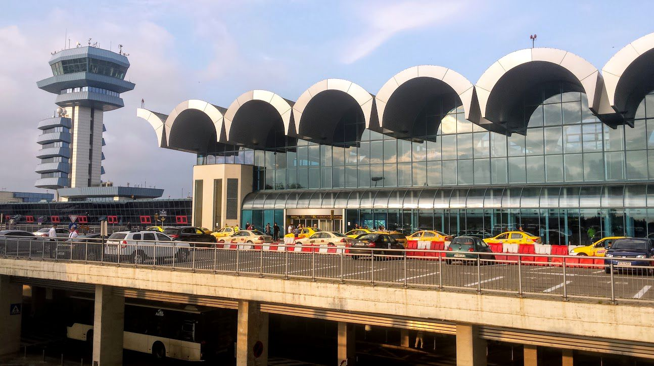 Henri-Coanda Airport arrivals